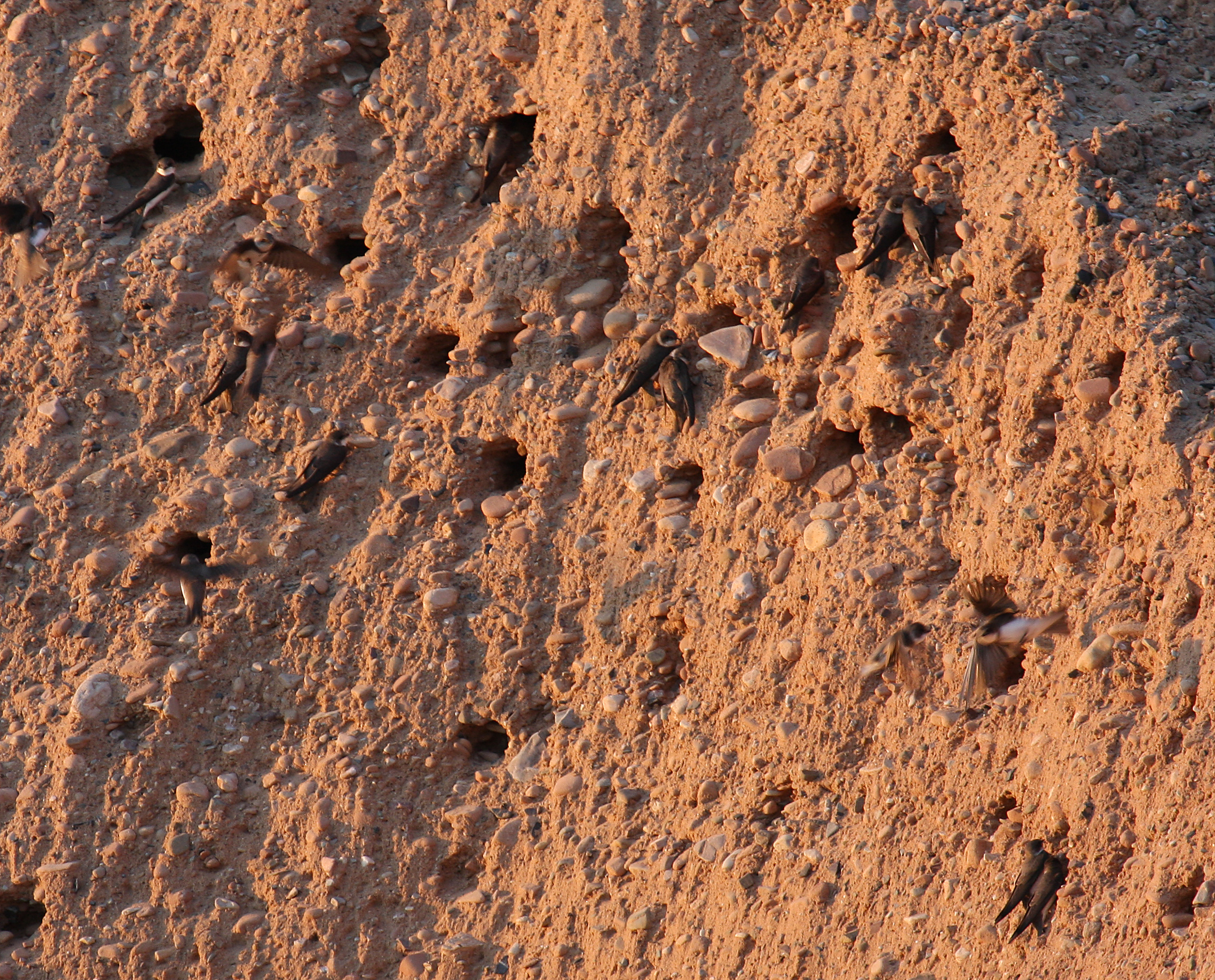 Sand Martin